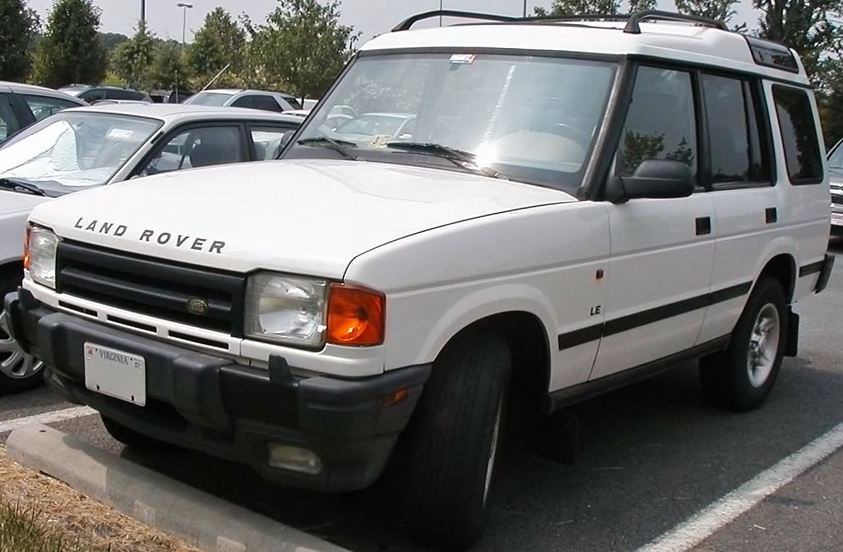 Land Rover Discovery Series I photographed in USA.